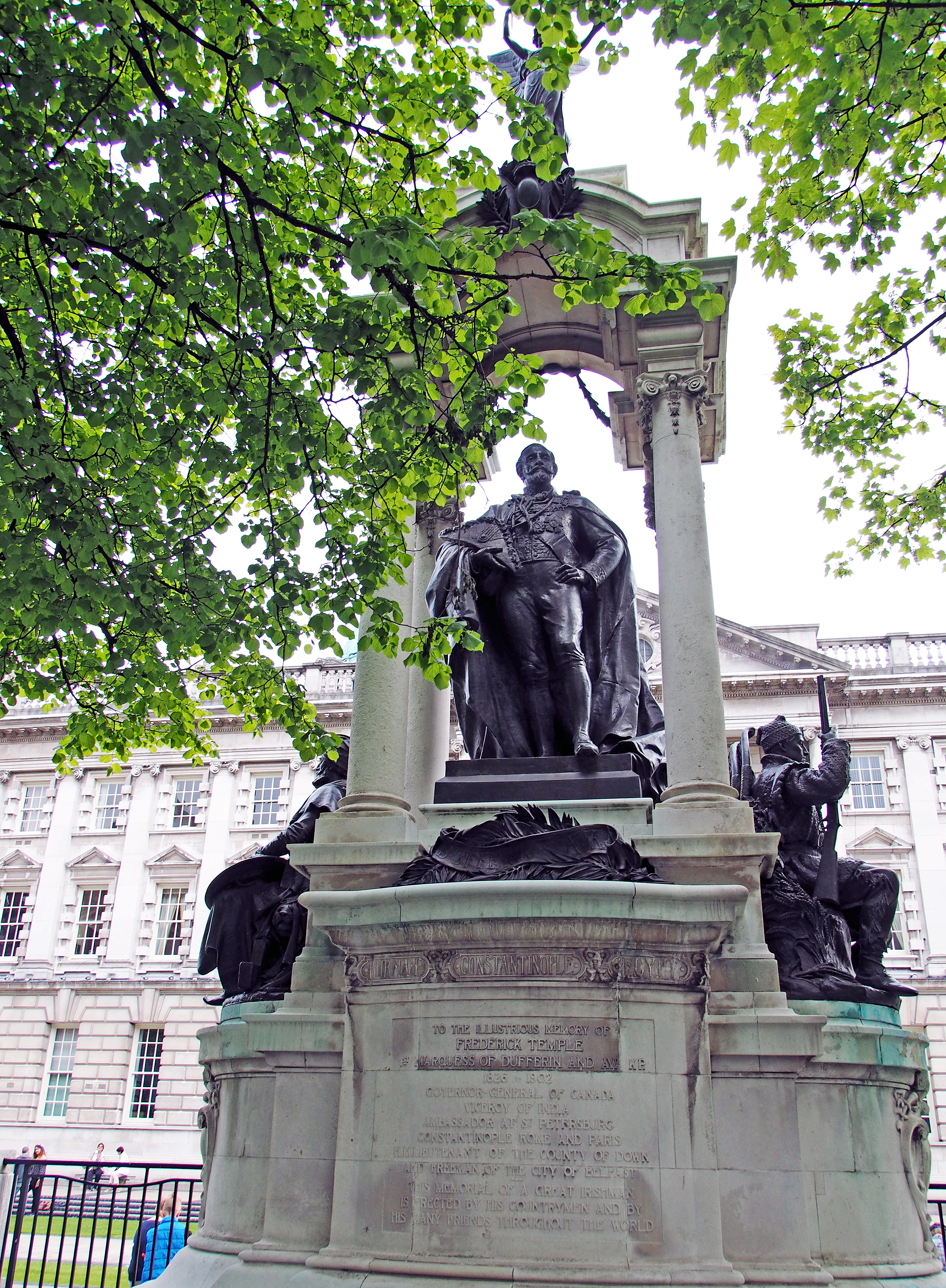 Monument to Frederick Temple in the grounds of Belfast City Hall